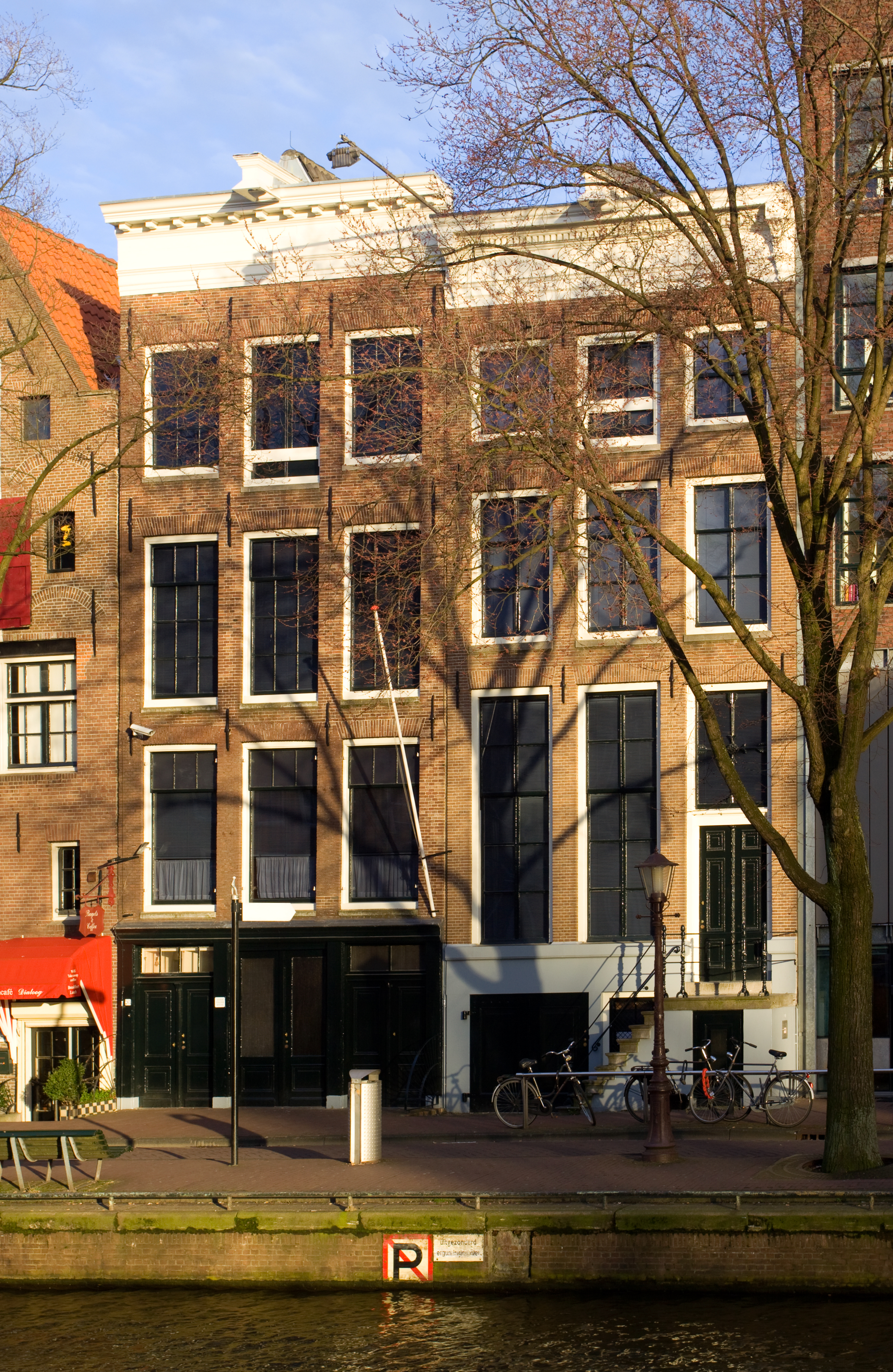 The Anne Frank House alongside the Prinsengracht in Amsterdam, the Netherlands.